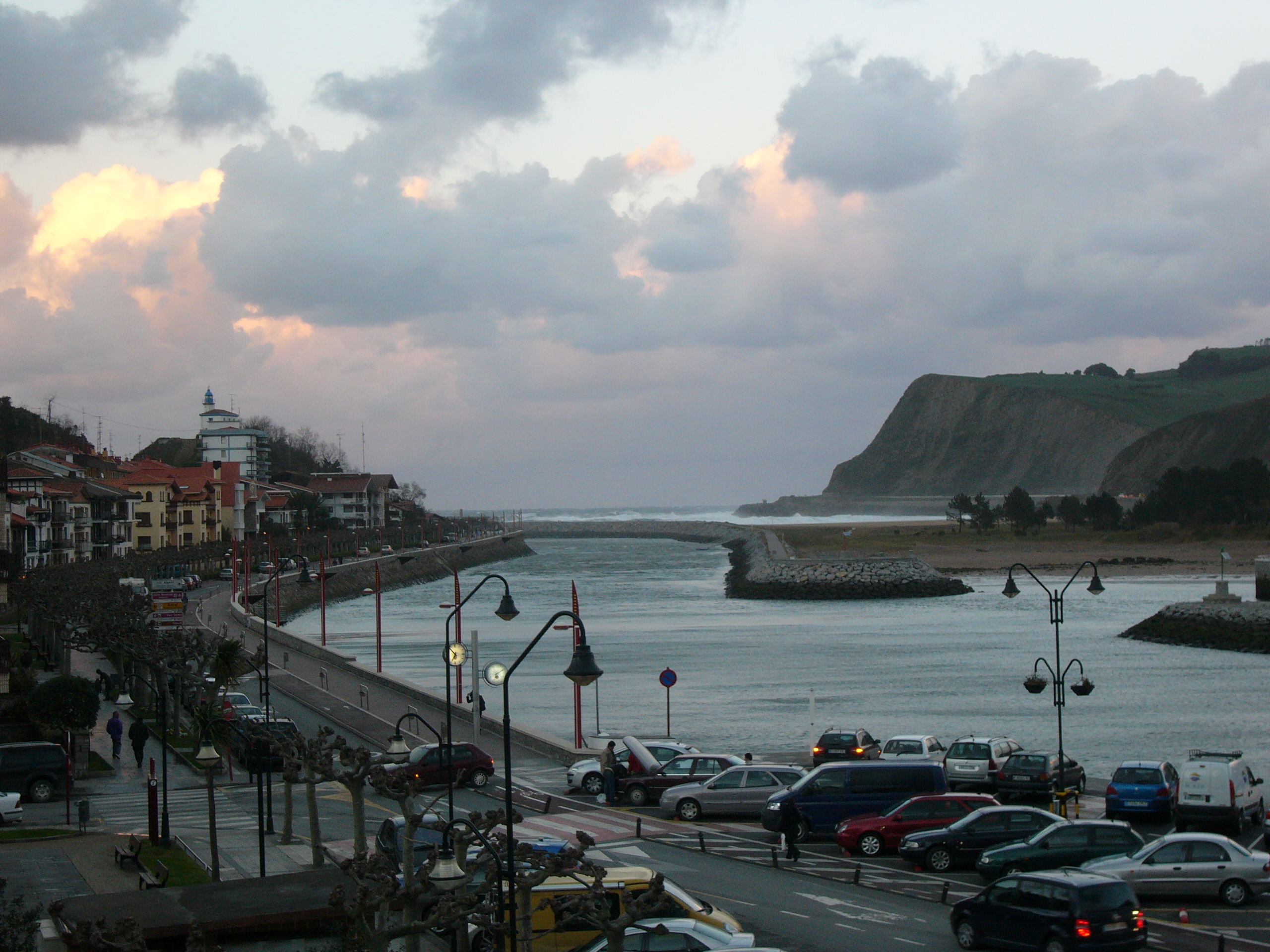 Mouth of Urola's estuary in Zumaia (Gipuzkoa)